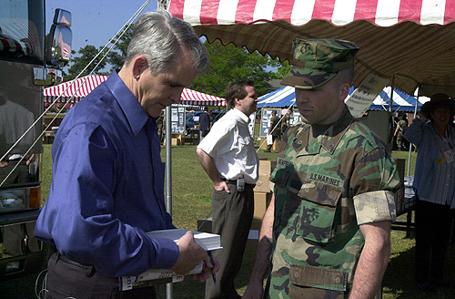 Oliver North signing one of his books at the Sea Services Korean War Commemoration Event at Camp Lejeune, North Carolina on April 11, 2002. Oliver North signs a copy of his book for SSgt Frank A. Manfre of Range Control, Bravo Company, Marine Corps Base, at the recent Korean War Commemorative event held at Camp Lejeune, North Carolina. Official USMC Photo by SSgt Pendergraft, Carly M.